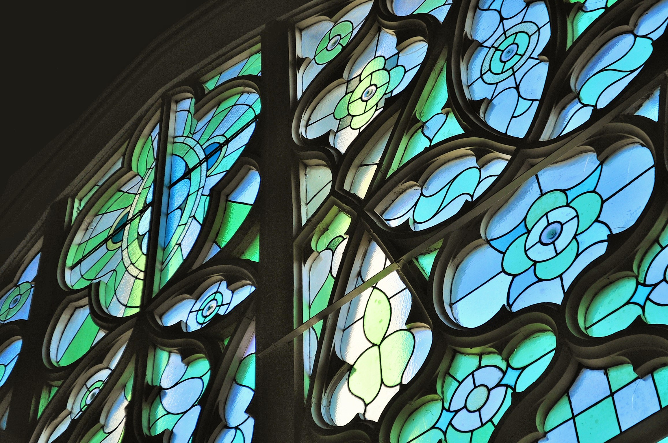 Interior window by prominent Melbourne stained glass artists Auguste Fischer, to design by architect Robert J Haddon 1906